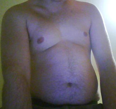 Torso of an overweight 16-year old male.